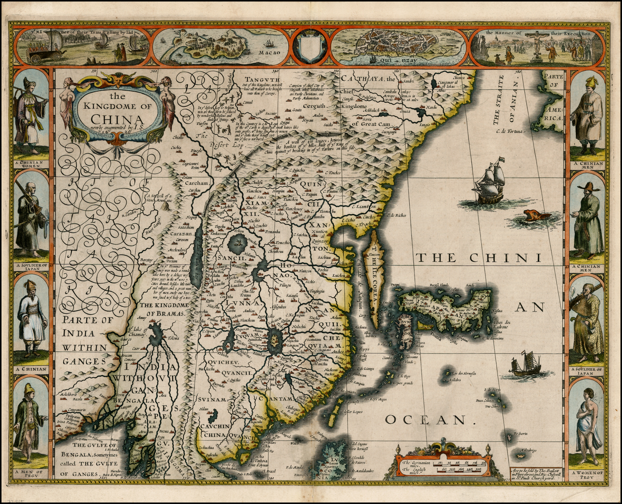 "The Kingdome of China", one of the first English-language maps of China. Note generally correct outline of the Ming China, with many provinces labeled (Cantam/Guangdong, Quancii/Guangxi, Chequiam/Zhejiang, Quicheu/Guizhou, Fuquam/Huguang/Huguang, Honao/Henan, Xanton/Shandong, Xiamxii and Sancii (Shanxi and Shaanxi?). "Xuntien alias Quinzay" more or less corresponds to Beijing (the name Shuntian Prefecture was indeed in use). However, north of China proper, John Speed had also placed "Cathaya, the Chief Kingdome of Great Cam", with the capital Cambalu (Khanbaliq - i.e., in fact, the same Beijing). This kind of duplication was common on the maps of the period, as geographers had not apparently yet fully identified Marco Polo's Cathay with the China then known to Europeans, and Cambalu with Beijing.